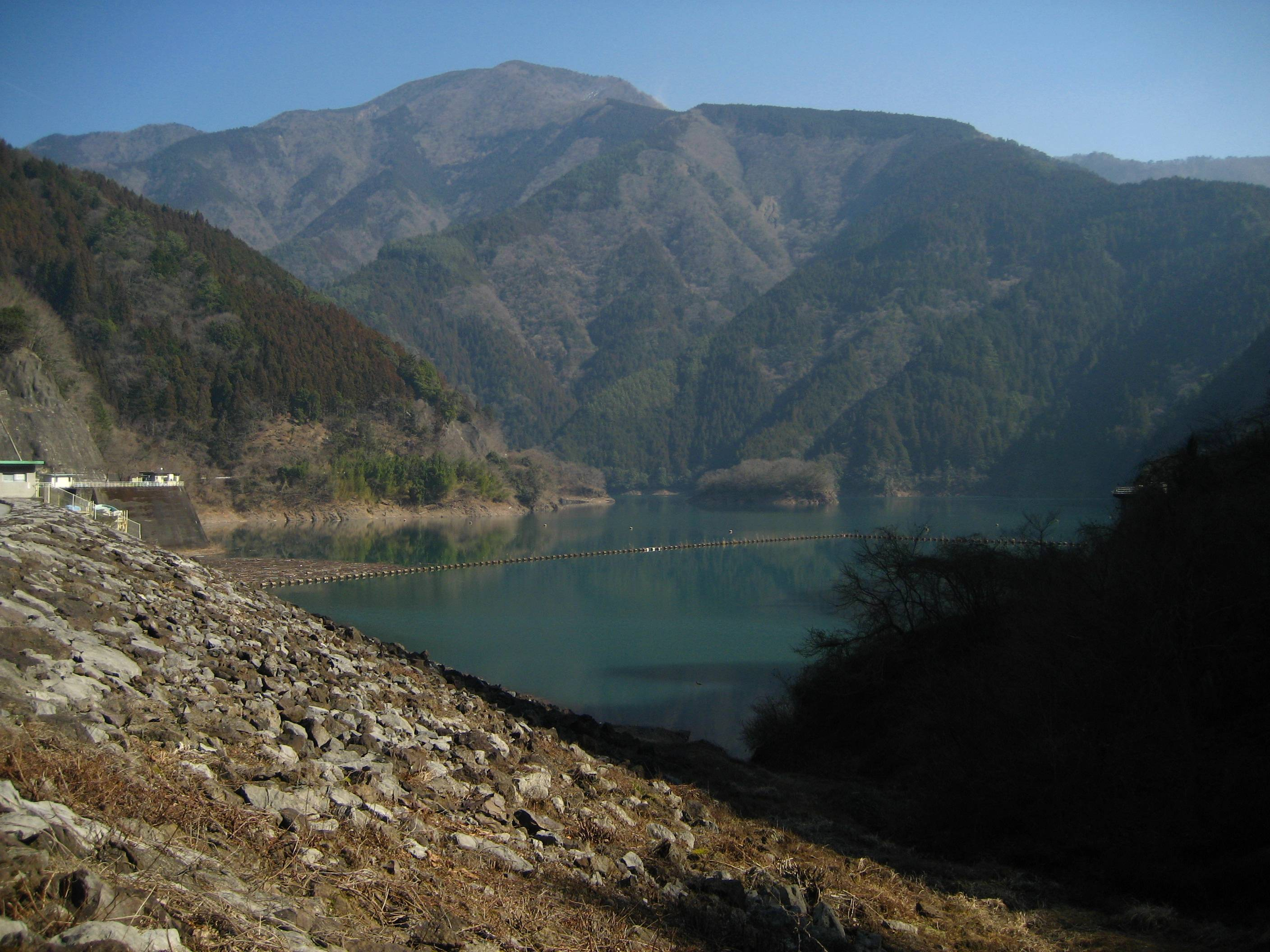 Misakubo Dam {水窪ダム (静岡県)} is a dam in Hamamatsu city, Shizuoka prefecture, Japan.